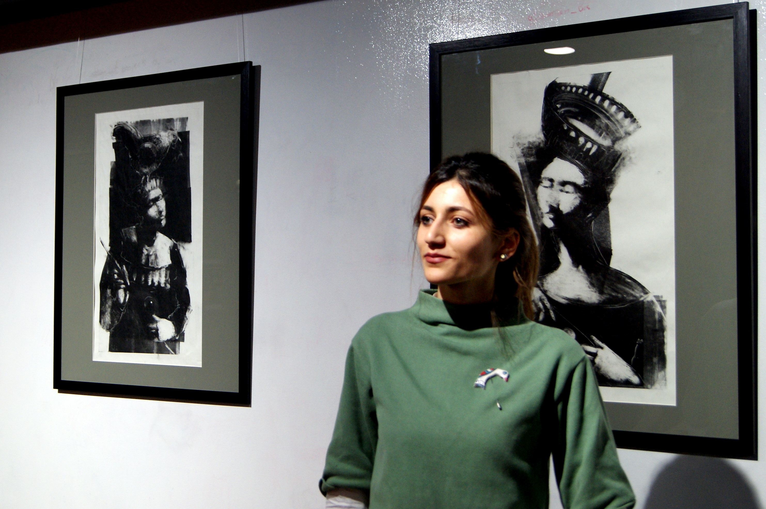 Artist Rima Nanyan during her exhibiton at the Loft